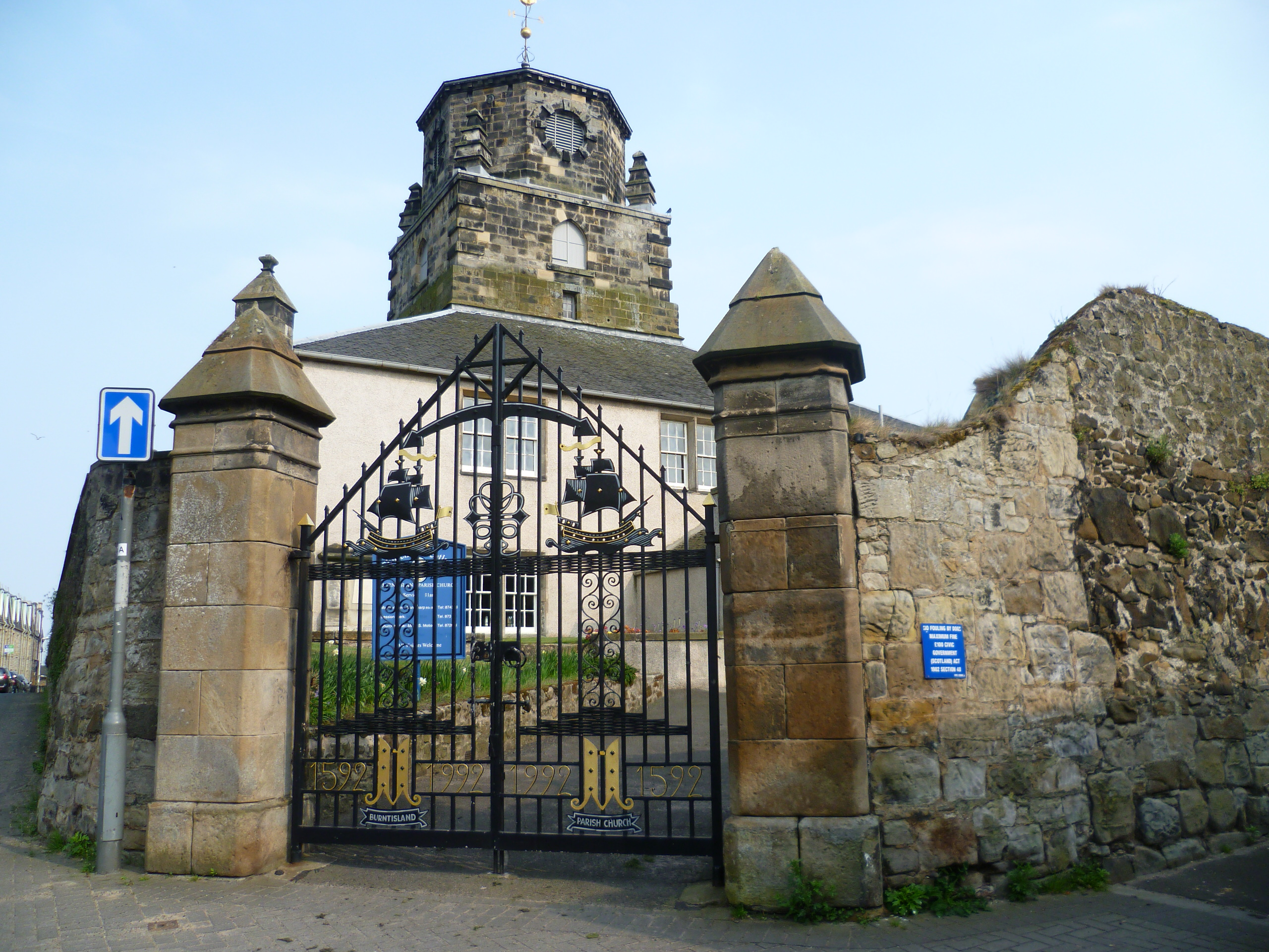 Dating from 1592, St. Columba's is the oldest pre-Reformation kirk still in use. In 1601, it was the venue of the General Assembly, held in the presence of King James VI, at which the need for a new translation of the Bible was suggested. The idea materialised a decade later with the appearance of the Authorised Version, known as the 'King James Bible', printed in England in 1611.